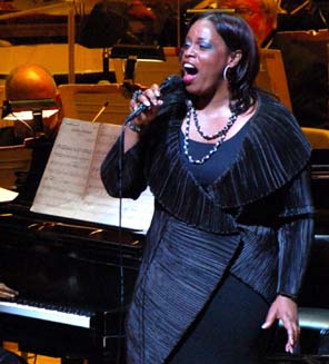 Dianne Reeves with the Boston Pops on June 1, 2007.